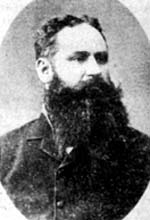 Cândido Augusto de Albuquerque Calheiros, 1º Conde da Covilhã